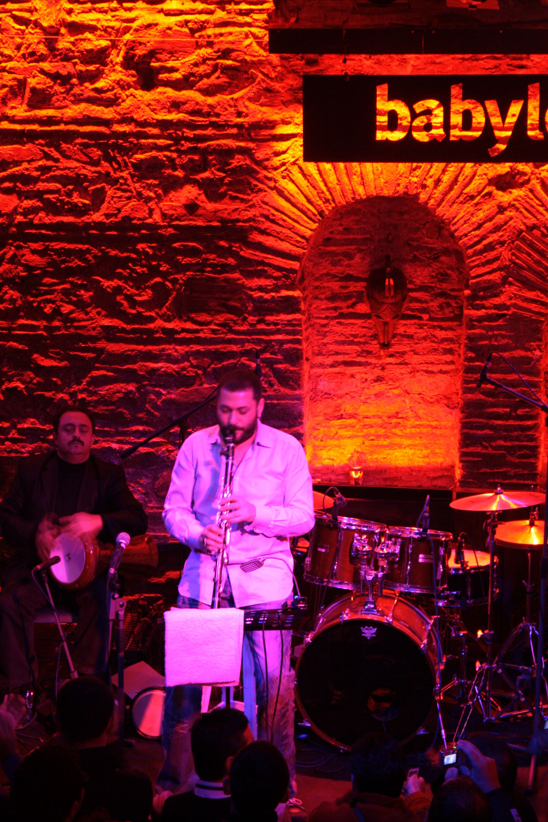 Hüsnü Şenlendirici in Babylon, 17 February 2011.